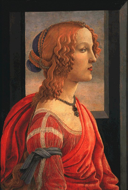 4th of presumable profile portraits of Simonetta by Botticelli